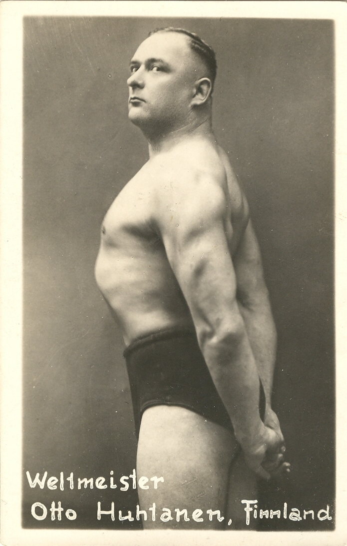 Finnish freestyle and Greco-Roman wrestler Otto Huhtanen